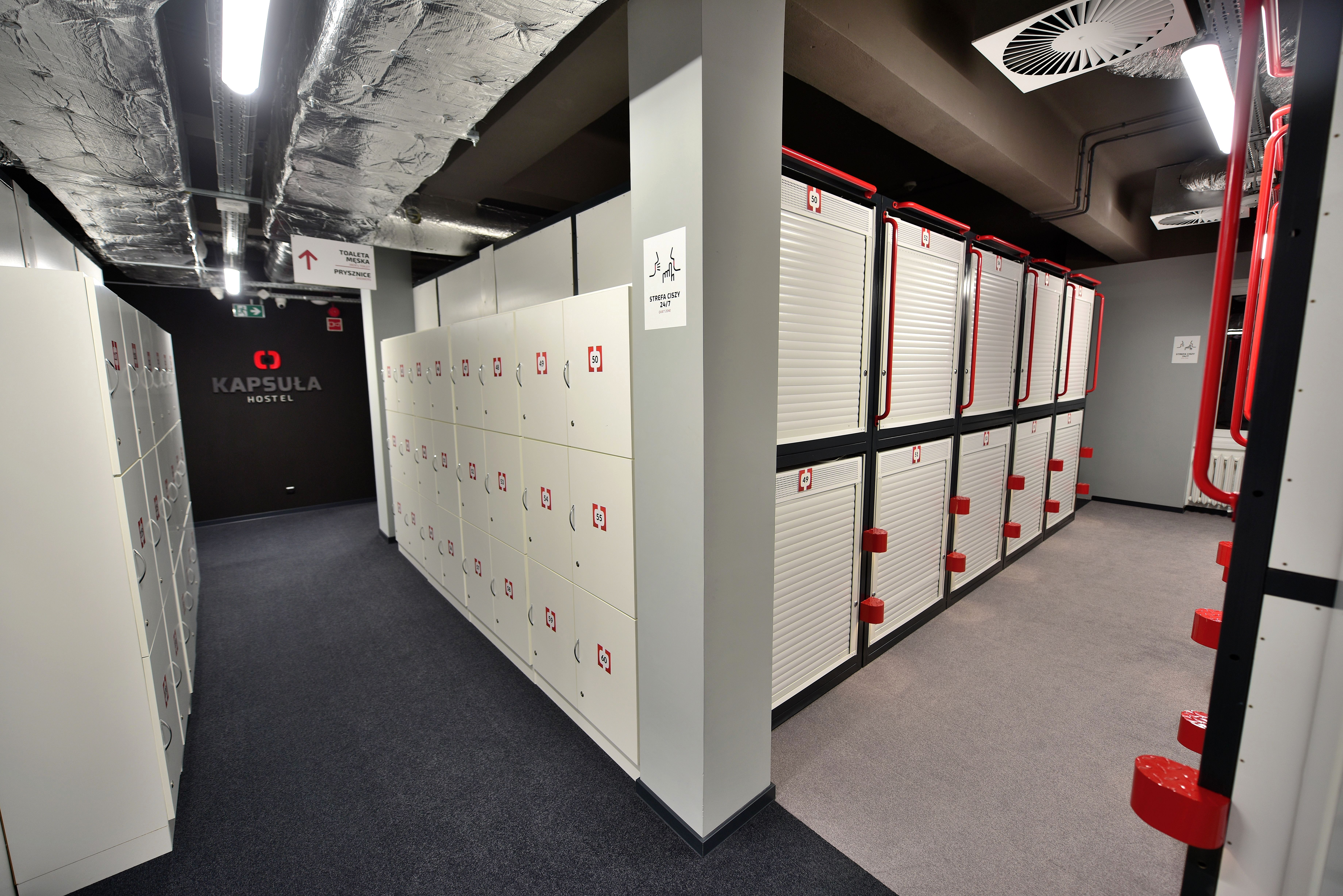 Capsule hotel - Kapsuła Hostel at 4 Dowcip Street in Warsaw